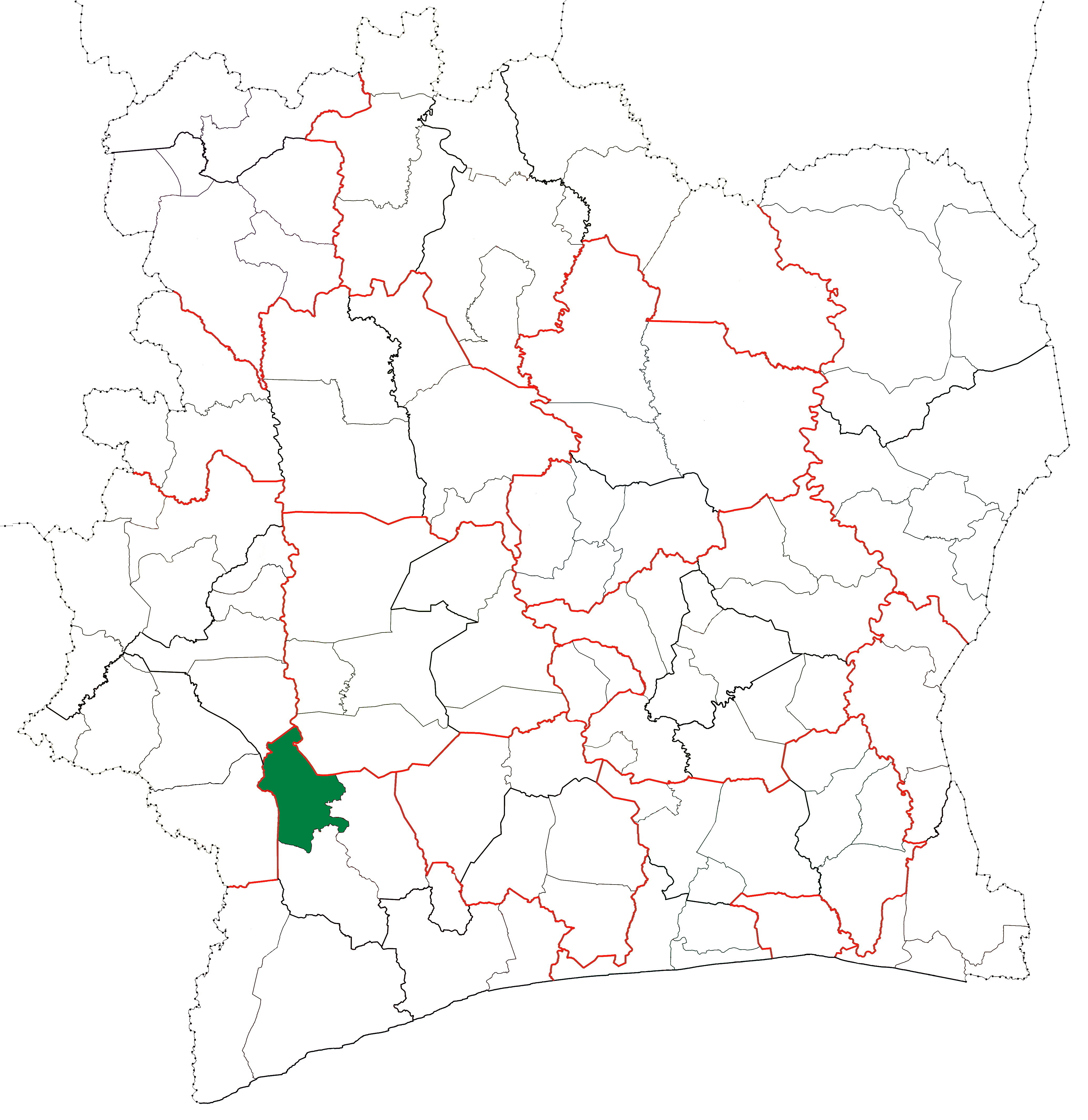 Locator map for Buyo Department in Côte d'Ivoire.